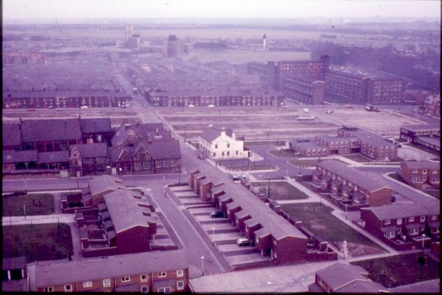 Replacement Housing Arthur's Hill Taken from top of 658977. Pub, white building, standing on own. Various types of housing visible.